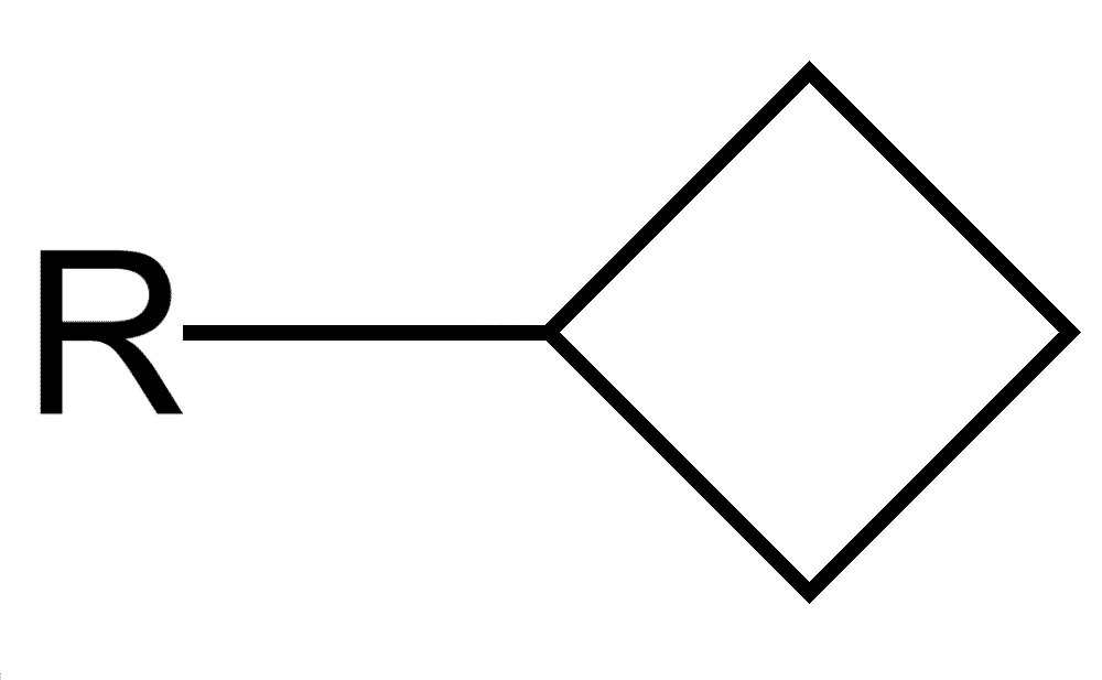 cyclobutyl group